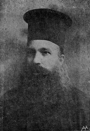 Chrysostomos Papadopoulos (1868-1938): Greek theologian, university professor and Archbishop of Athens (1923-1938)